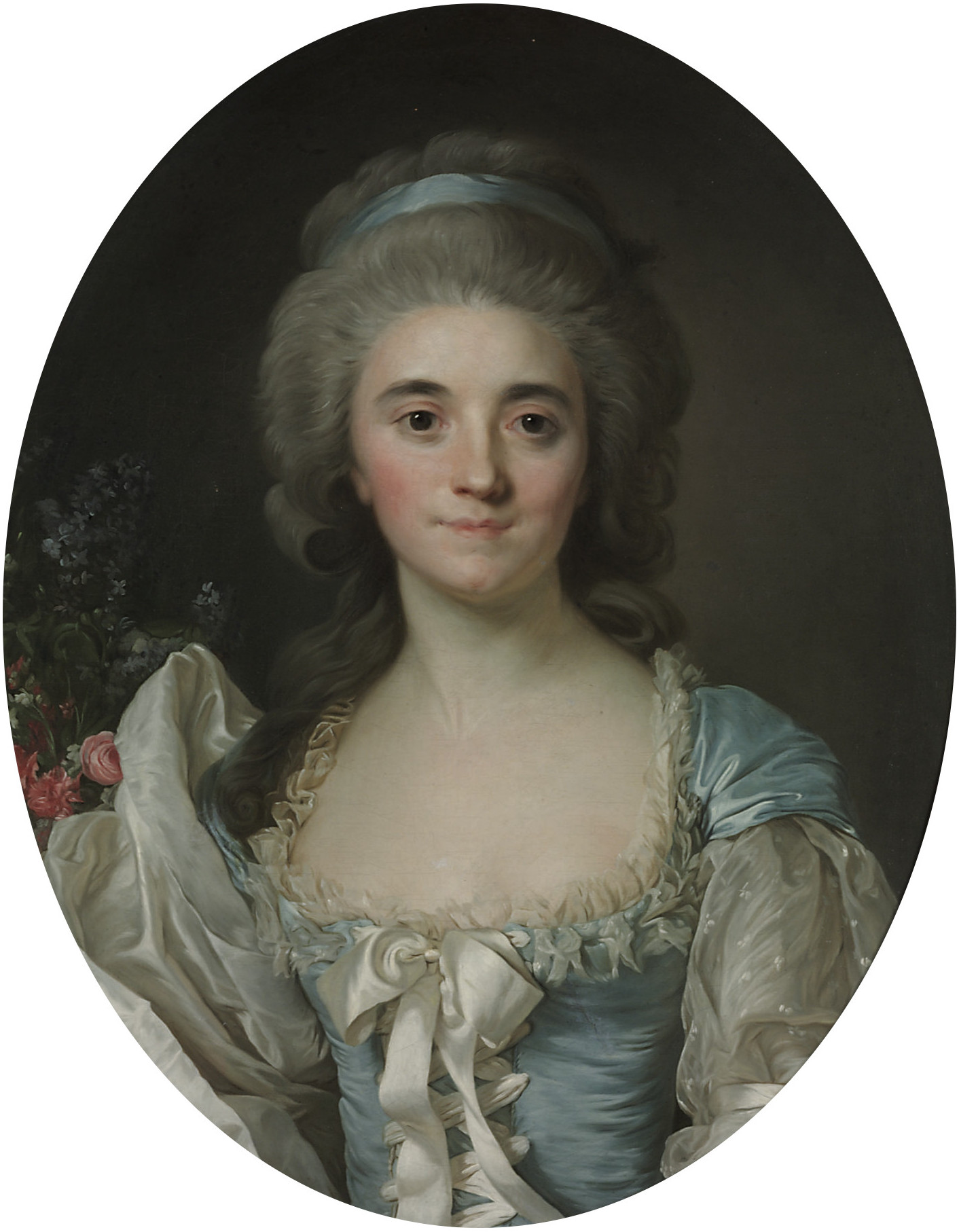 Portrait of Marie Joséphine of Savoy (1753-1810) in a turquoise dress with white lace trim and ribbon